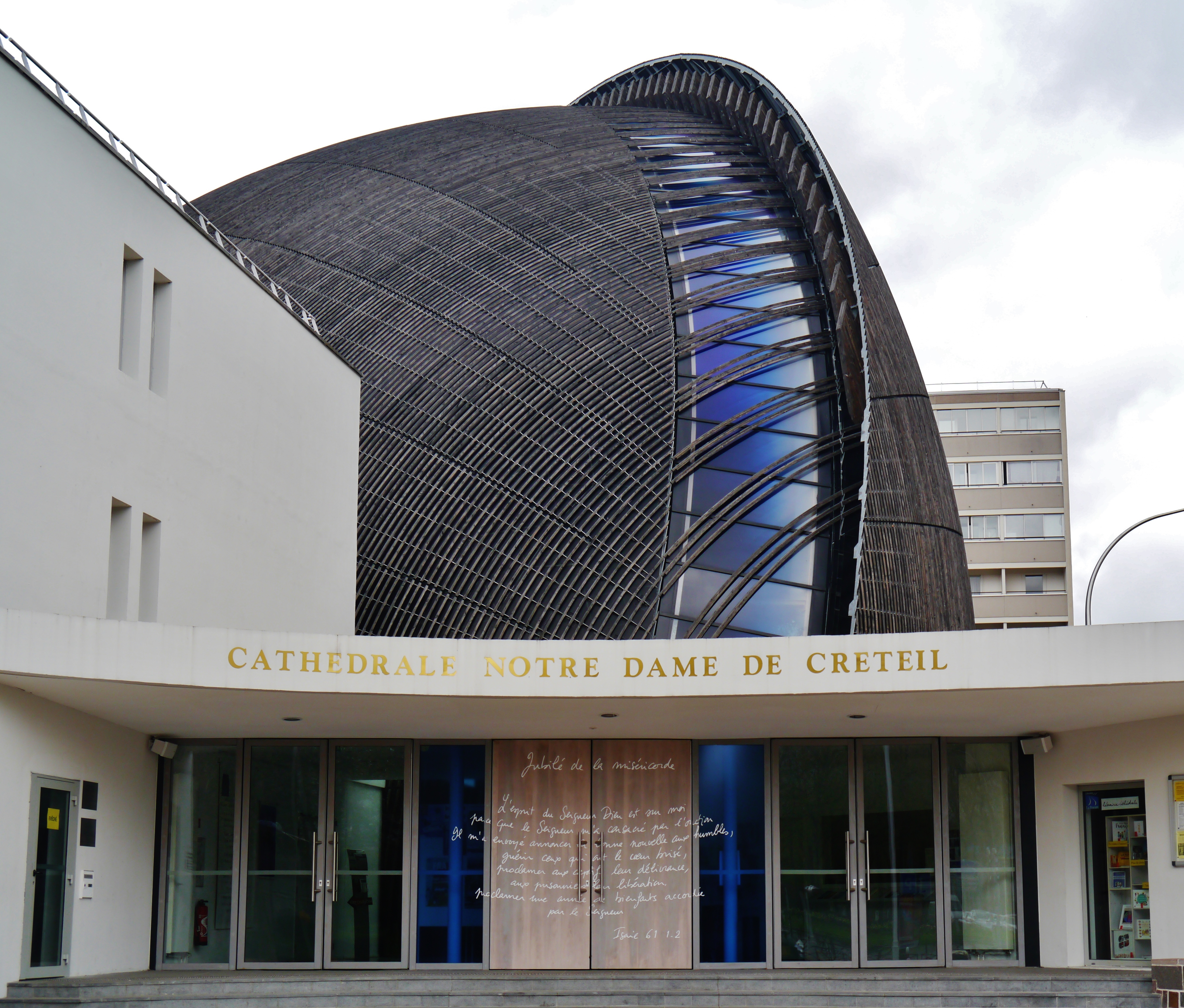 Facade of the Cathedral of Our Lady, Créteil, Departement of Val-de-Marne, Region of Île-de-France, France